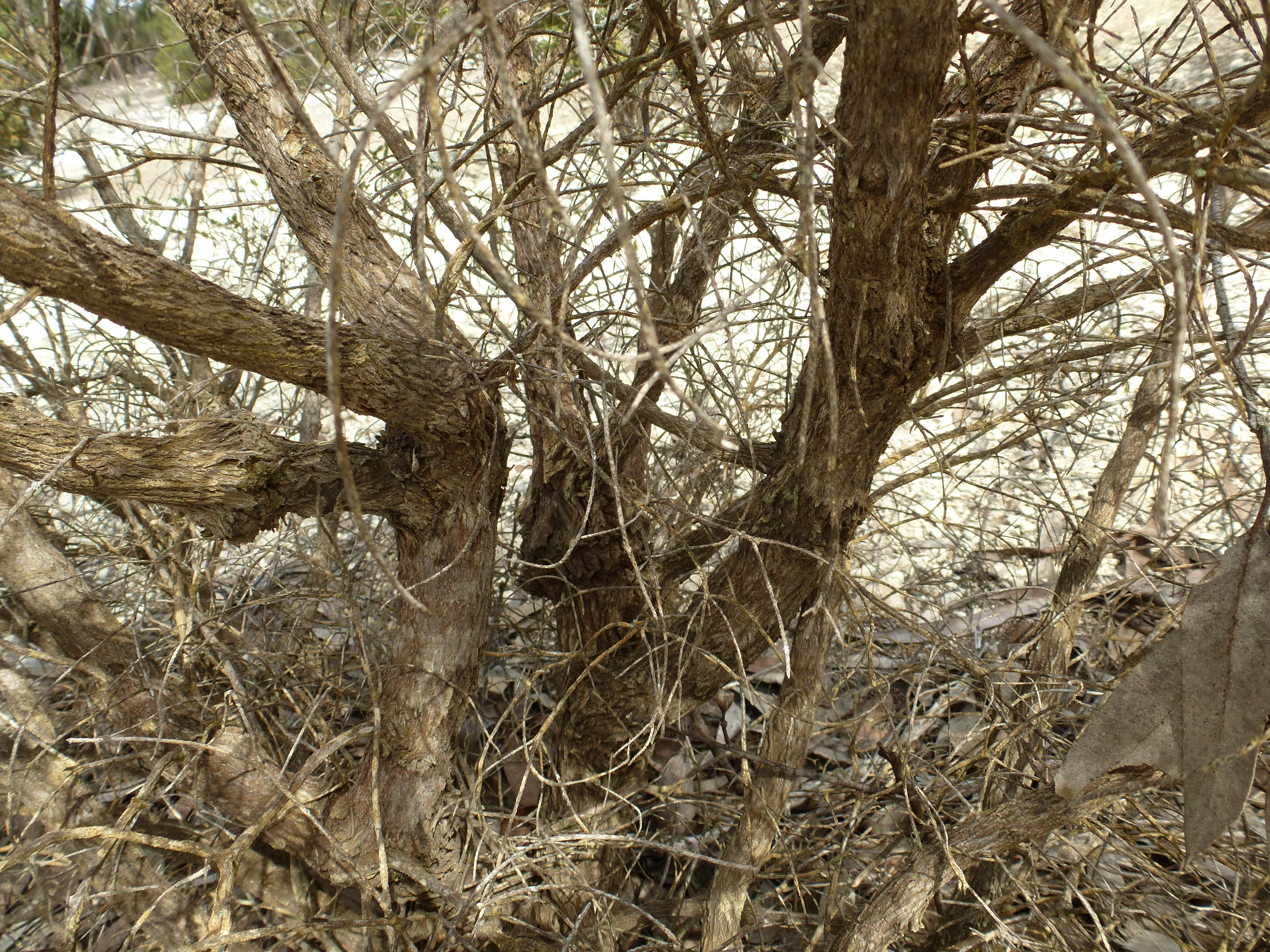 Melaleuca quadrifaria growing near Scaddan Road